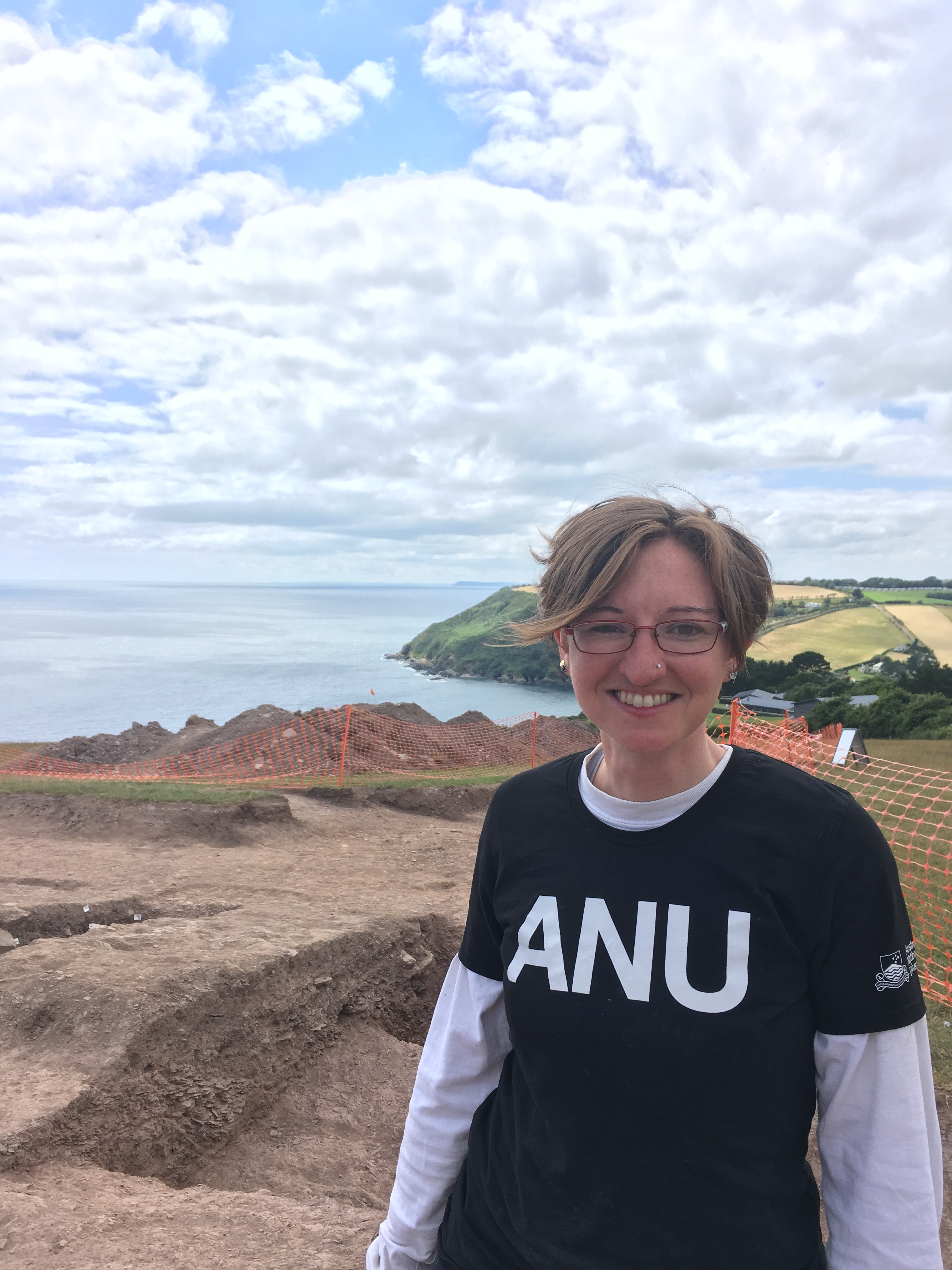 Catherine J. Frieman at the archaeological excavation at Talland Round, Cornwall in June 2019